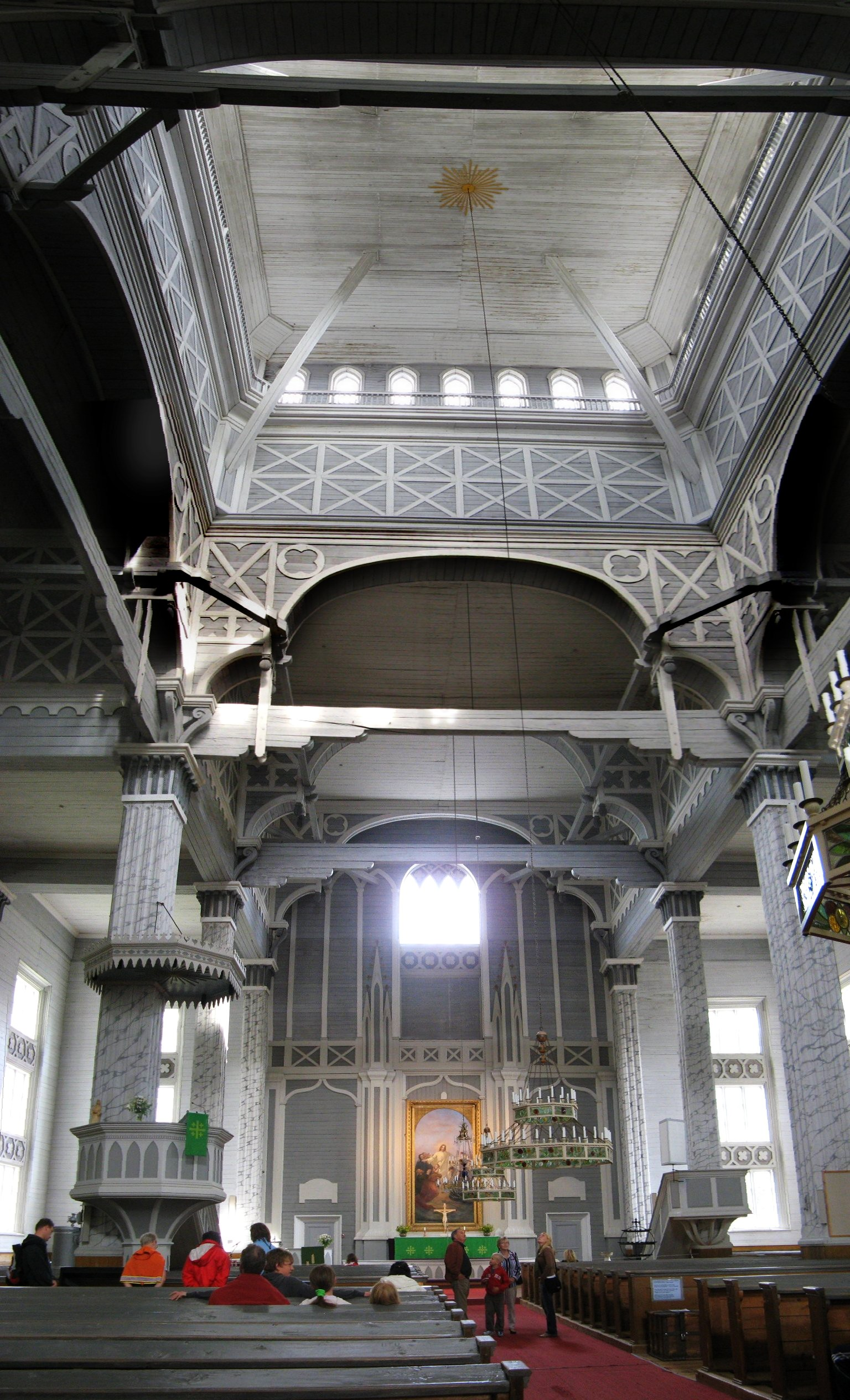 Interior of Kerimäki Church, Kerimäki, Finland